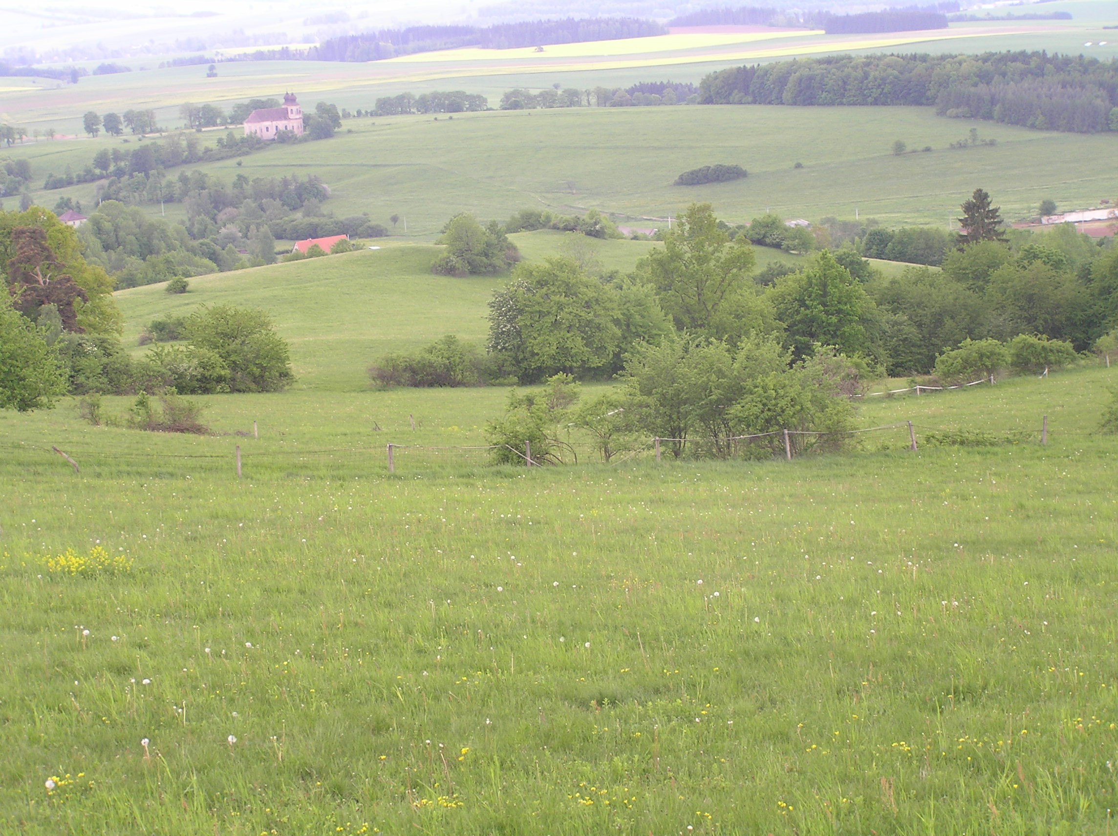 Village of Šonov as seen from the Javoří hory Mountains